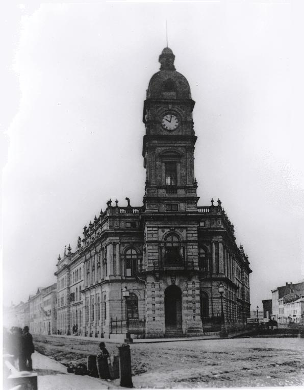 Photograph, Royal Insurance Company Building, Montreal, QC, about 1875, William Notman (1826-1891), Silver salts on film (safety) - Gelatin silver process, 12 x 9 cm